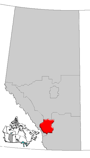 Map of Calgary Region Alberta, Canada